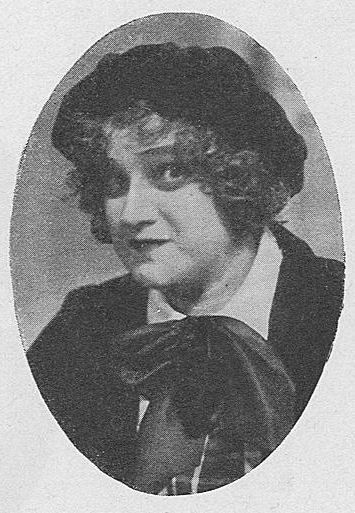 Finnish theatre personality, early 1930s.